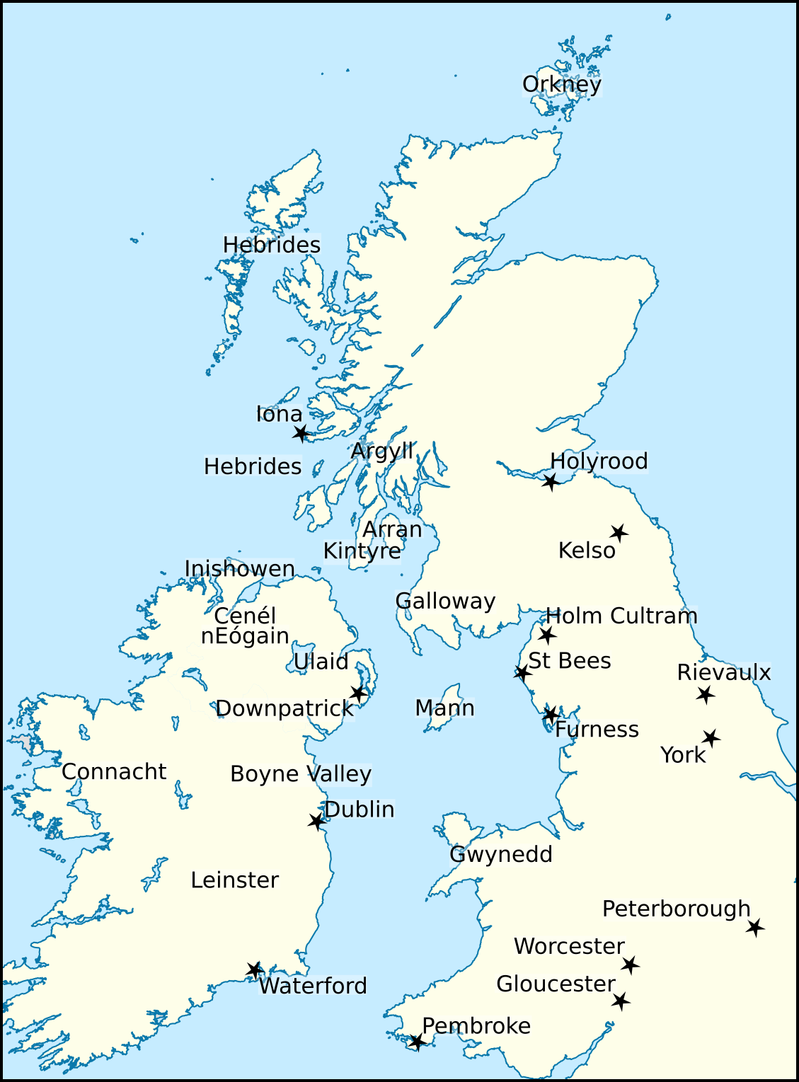 Map created for the Wikipedia article concerning Guðrøðr Óláfsson, King of the Isles (1187).